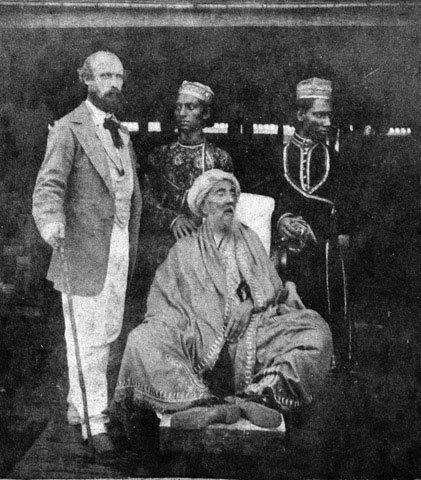 Last Mughal Emperor Bahadur Shah Zafar with sons Mirza Jawan Bakht & Mirza Shah Abbas in exile in Burma in the aftermath of the Indian Mutiny (1857-1859)